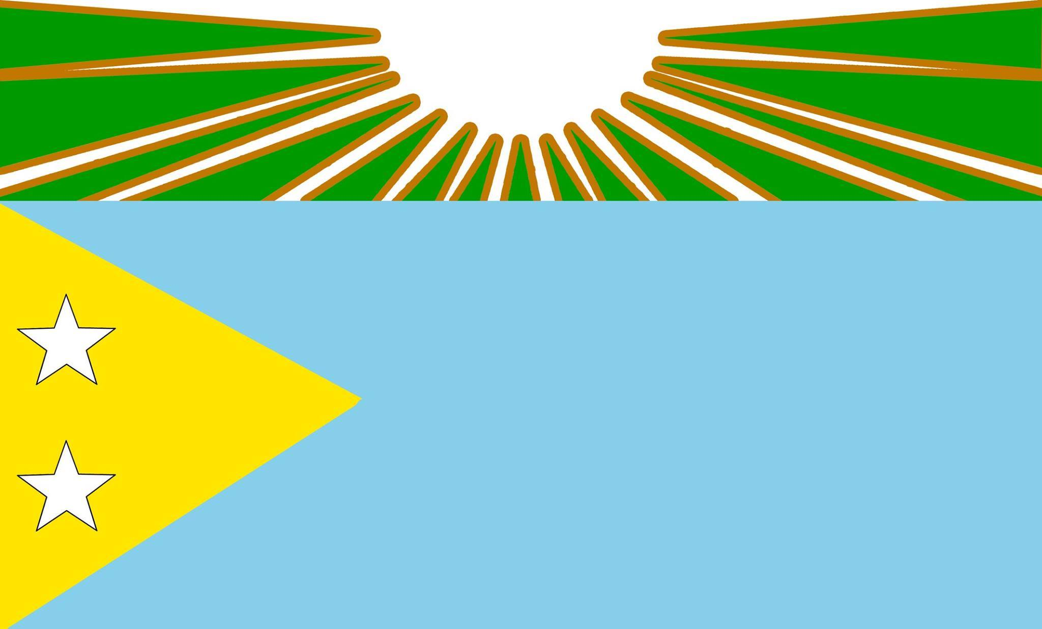 escudo del municipio san jeronimo de guayabal